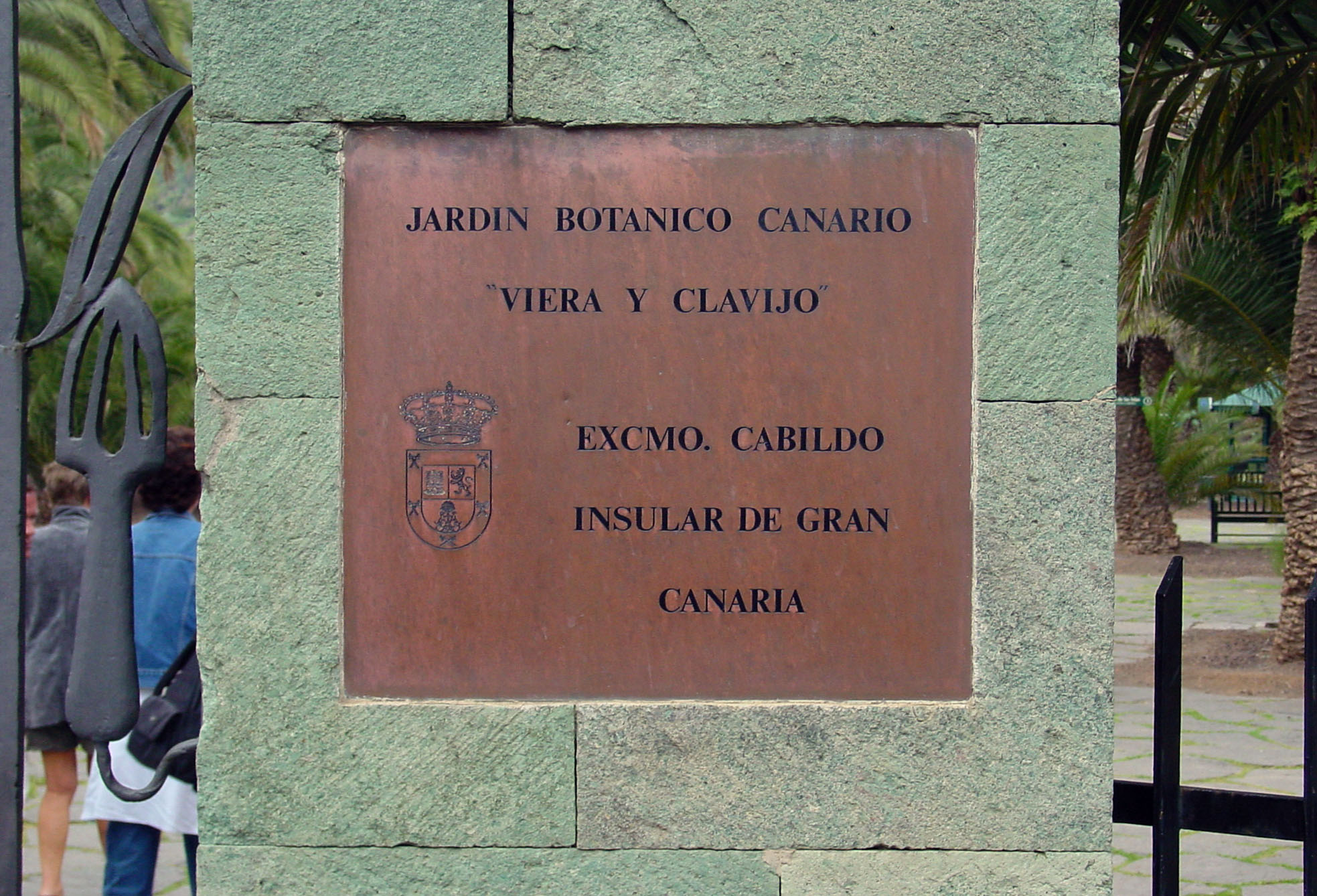 Sign at the entrance of the Jardin Botanico Canario "Viera y Clavijo", Gran Canaria. .